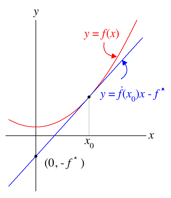 Diagram showing the geometric interpretation of the Legendre transform of the function f(x). The tangent line at x0 intercepts the y axis at f*, which is the value of the Legendre transform for argument p= f'(x0).